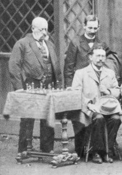 Vienna 1898 chess tournament Participants Adolf Schwarz (left), Carl Schlechter (right), Siegbert Tarrasch (sitting)